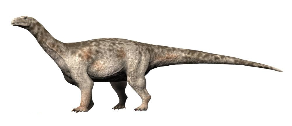 Restoration of Ledumahadi mafube